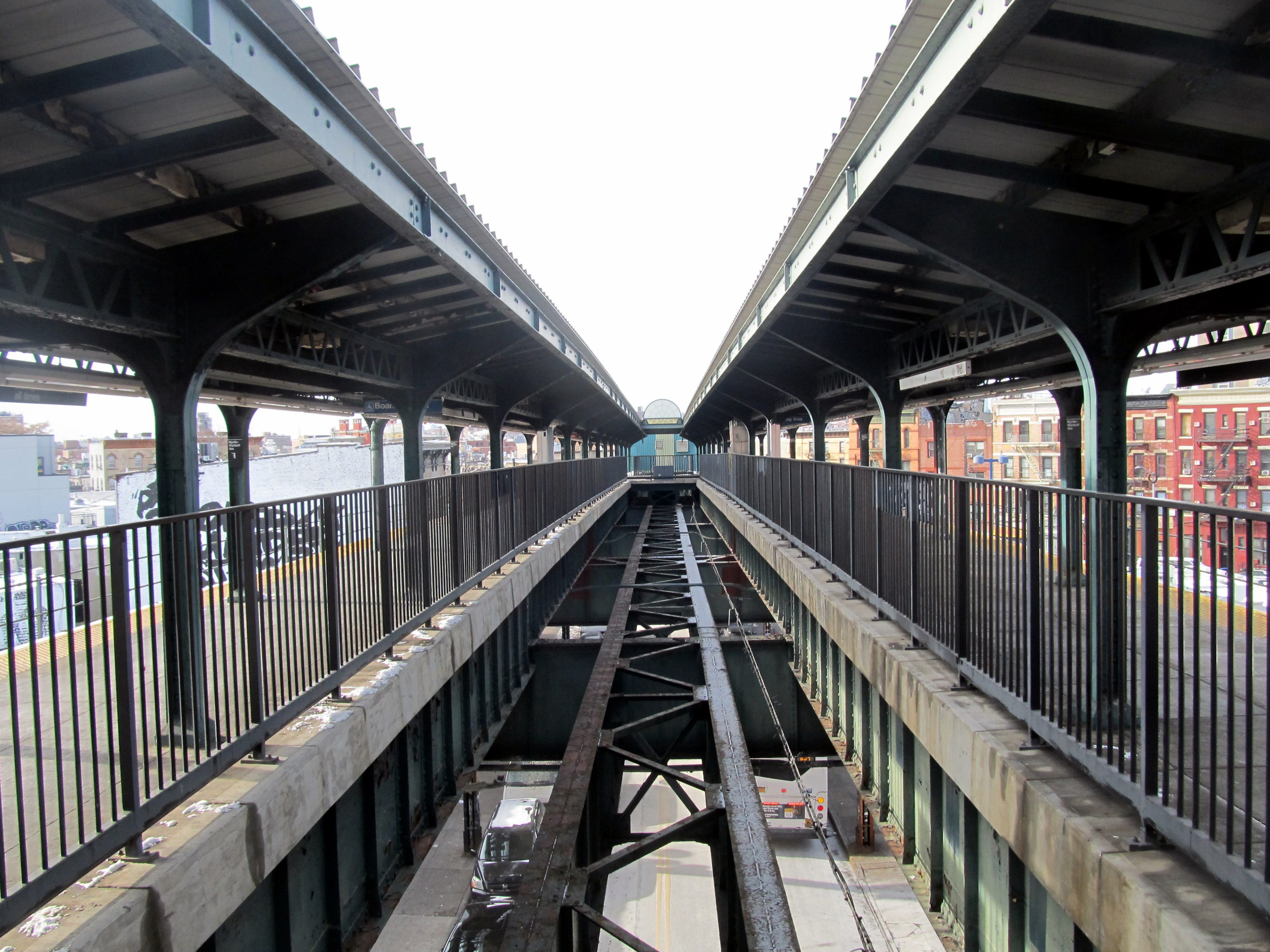 Former center trackway at Myrtle-Wyckoff Avenues station in December 2017